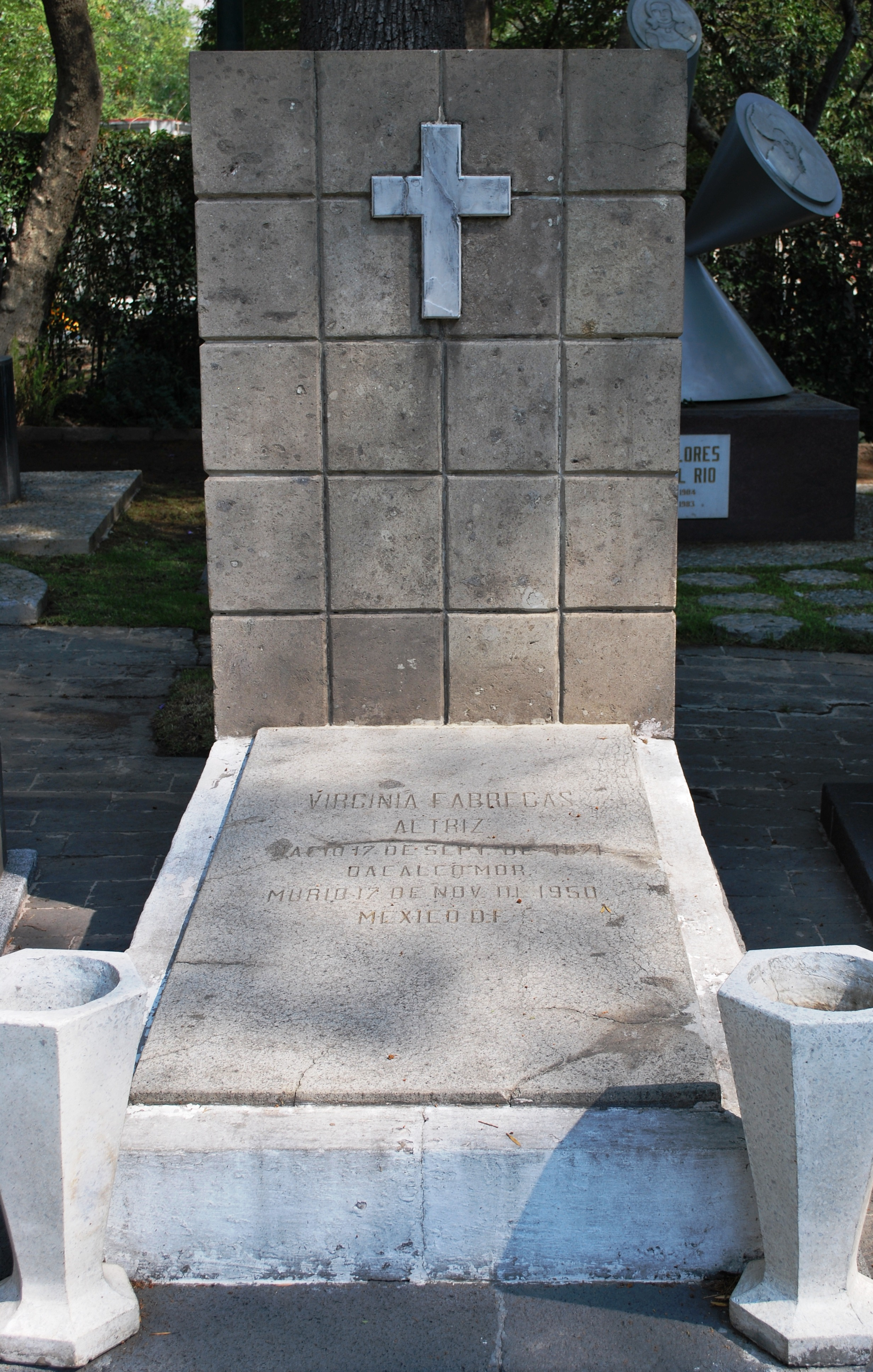 Tomb of Virginia Fabrecas in the Panteon Civil de Dolores cemetery in Mexico City